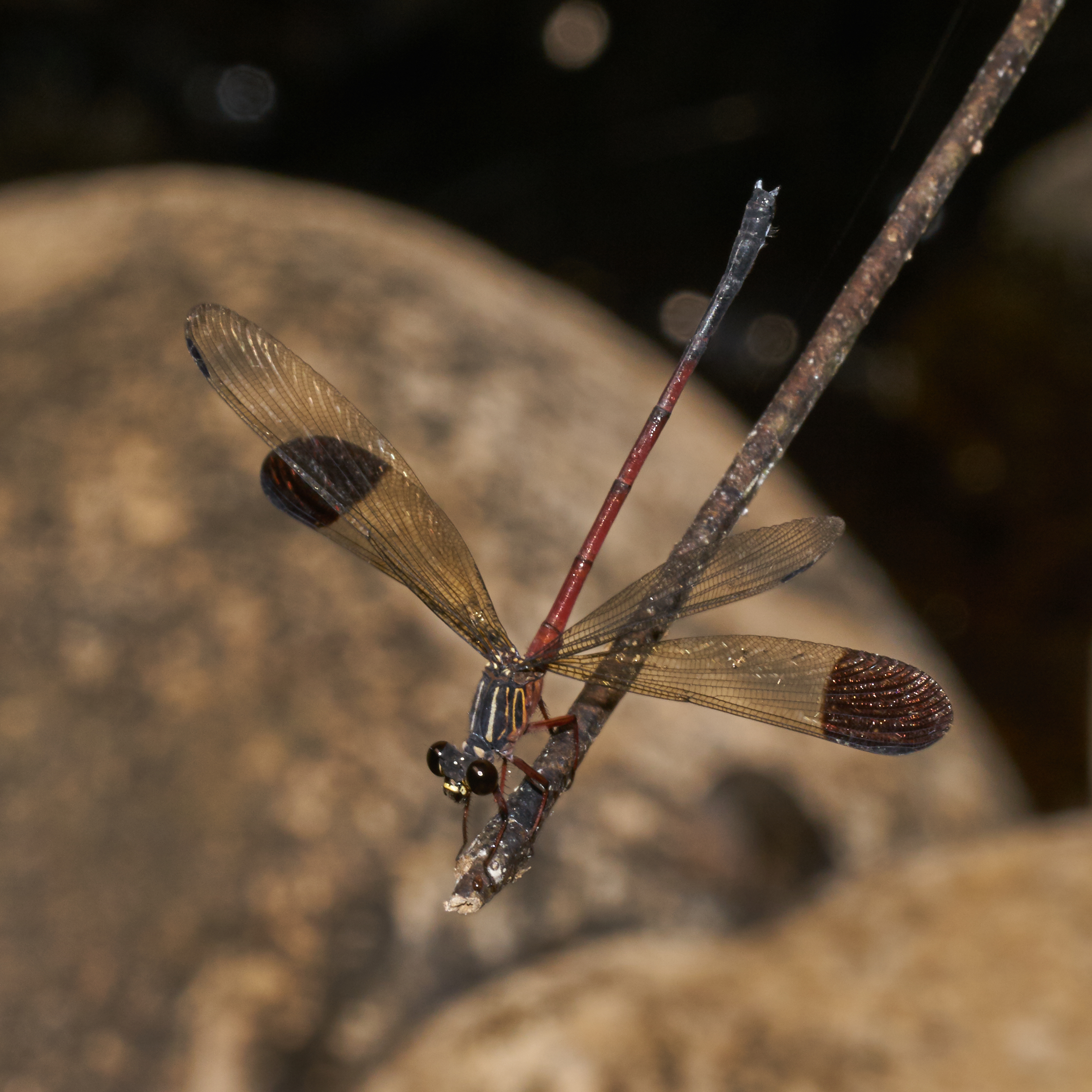 Euphaea fraseri, Malabar Torrent Dart, is a member of Euphaeidae family. The species is endemic to the Western Ghats of India. The species is common in hill streams from about 90 to 1,000 m. Males are very common and can be seen using the same perch for days together. Females are not uncommon in the neighbouring jungle, settled on twigs at about 8 to 12 ft from the ground (Fraser 1934). Males defend their territory with open wings and prominently display the iridescent copper markings of the upper hind wing. It breeds in hill streams.